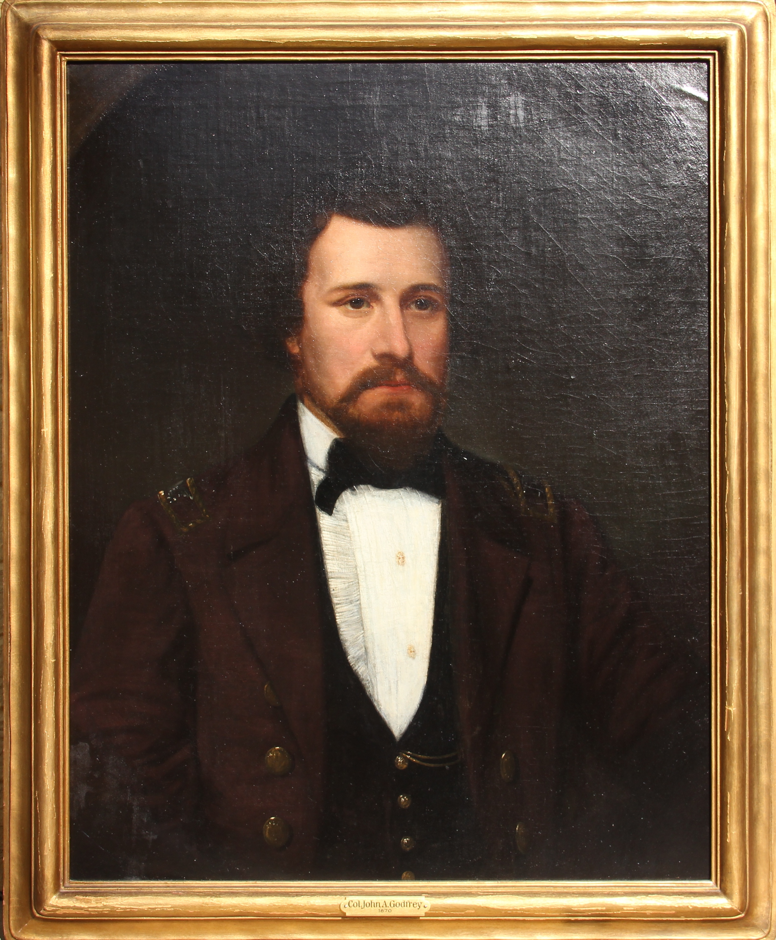 Oil Painting of Colonel John A Godfrey from 1870